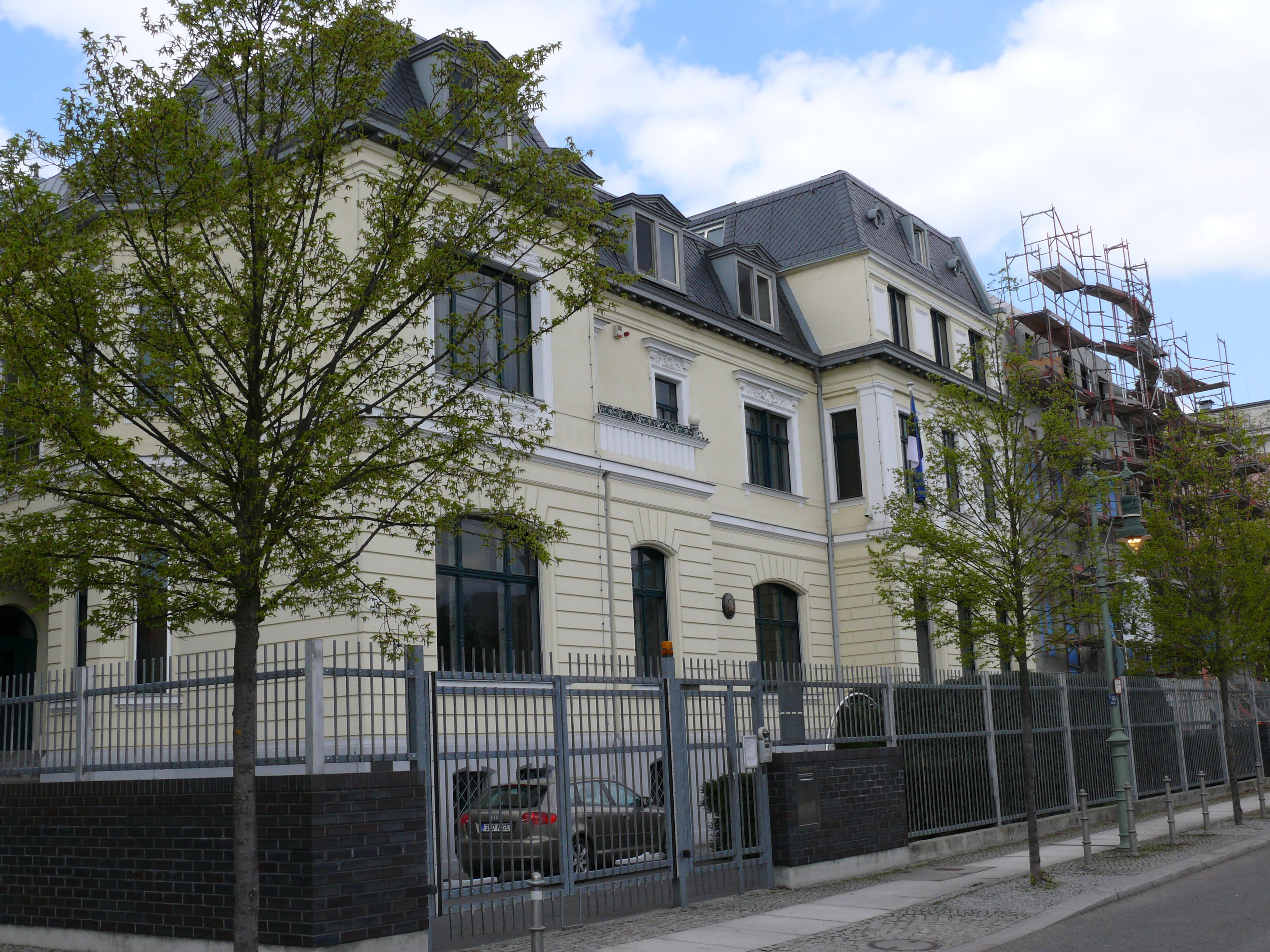 Berlin-Tiergarten Hildebrandstraße